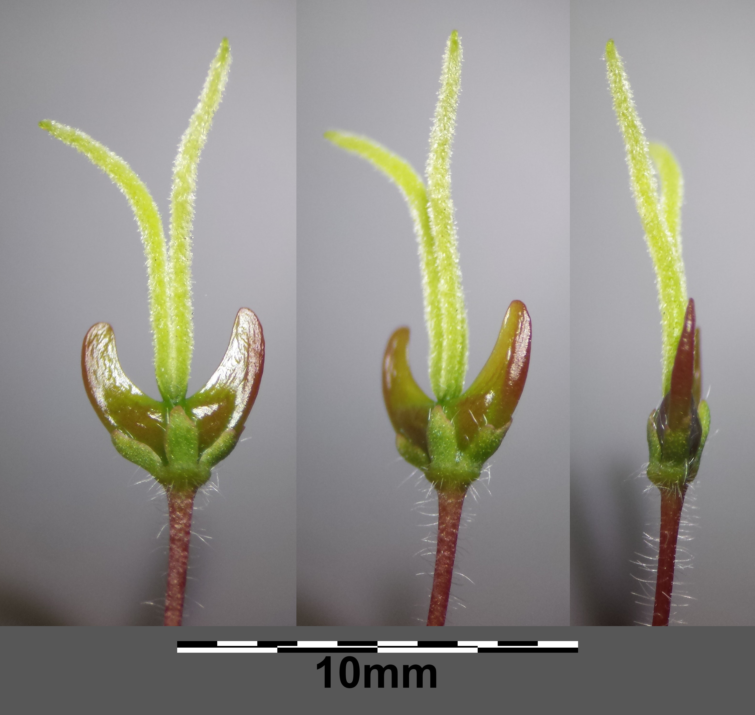 Flower (♀ individual) Taxonym: Acer negundo ss Fischer et al. EfÖLS 2008 ISBN 978-3-85474-187-9 Location: Jedlersdorf rail station, Vienna-Floridsdorf - ca. 160 m a.s.l. Habitat: ruderal area